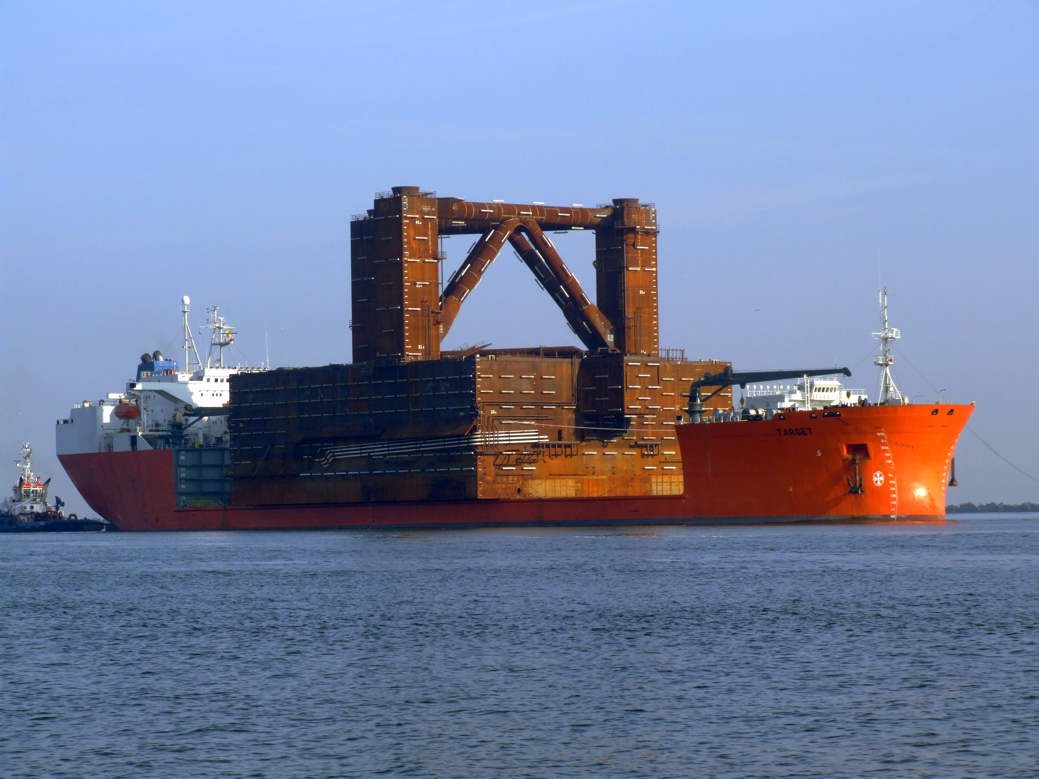 Photographed at the "Port of Rotterdam", The Netherlands.